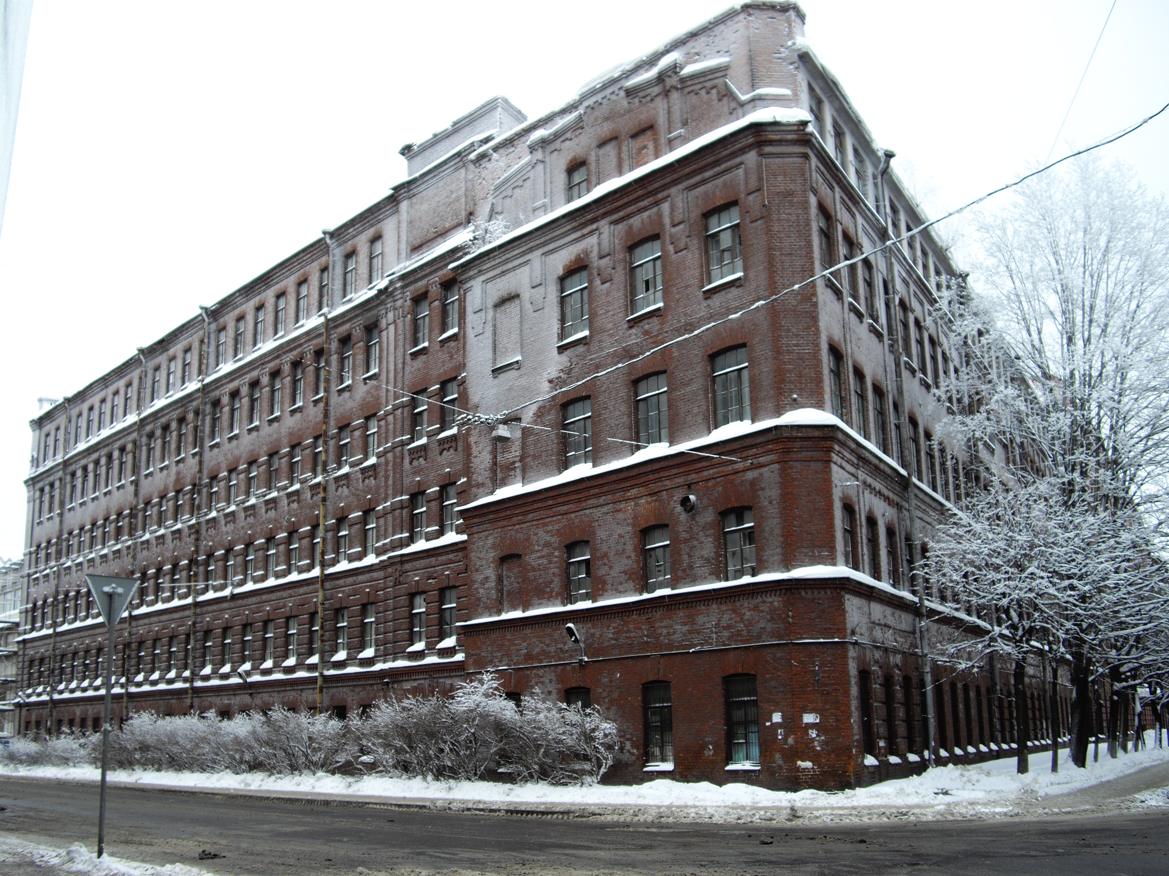 Krasnoe Znamya (Red Banner) factory in Saint-Petersburg, Russia. Main production facilities building (1895-1910s)